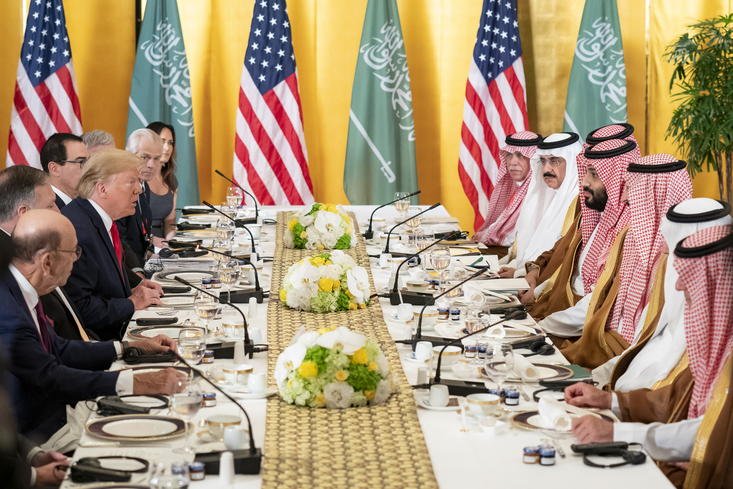 President Donald J. Trump welcomes the Crown Prince of the Kingdom of Saudi Arabia Mohammed bin Salman to a working breakfast Saturday, June 29, 2019, at the Imperial Hotel Osaka in Osaka, Japan. (Official White House Photo by Tia Dufour)